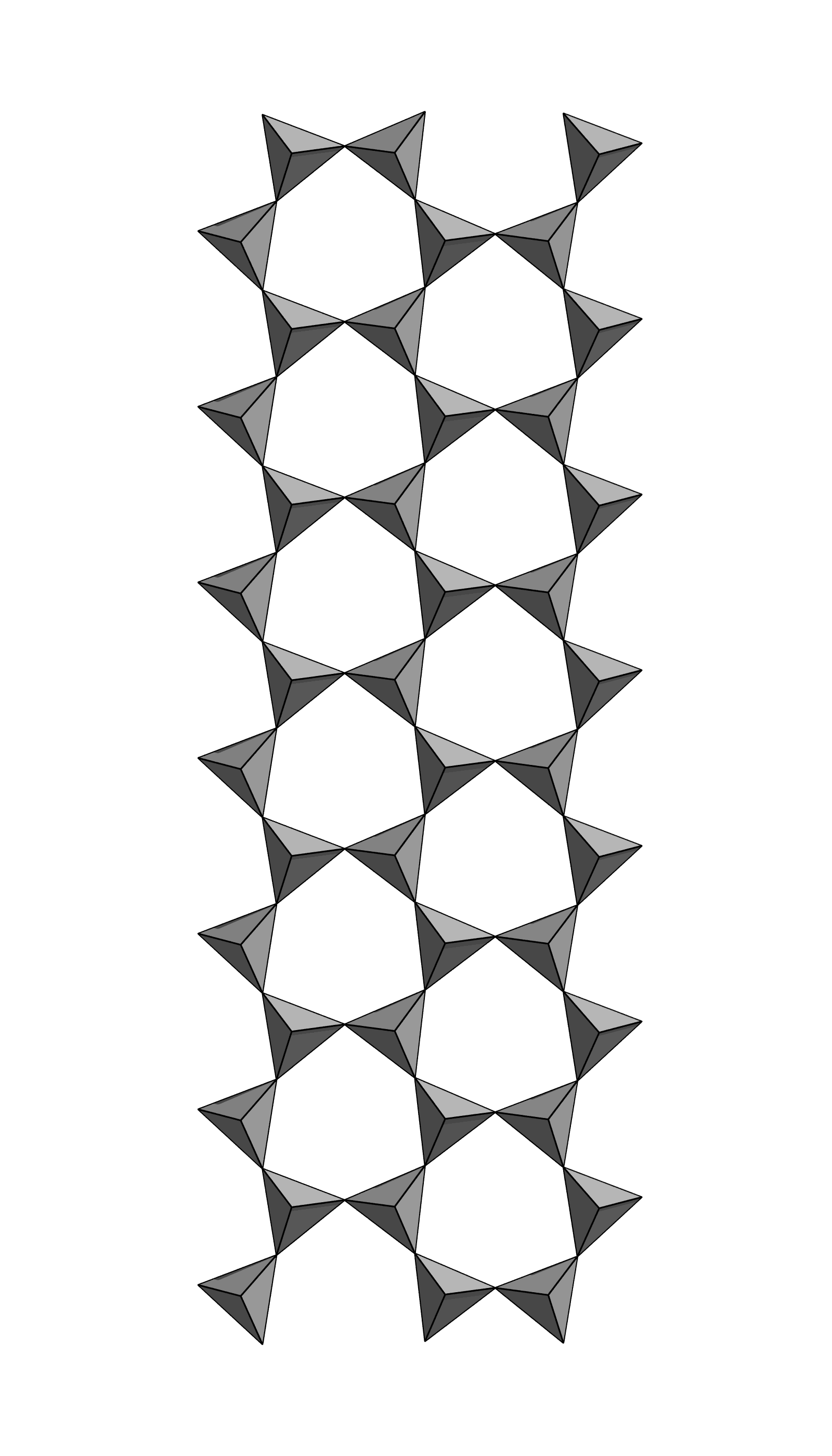 Unbranched zweier triple chain of Jimthompsonite Data from: Veblen, D. R.; Burnham, C. W. (1978): New biopyriboles from Chester, Vermont: II. The crystal chemistry of jimthompsonite, clinojimthompsonite, and chesterite, and the amphibole-mica reaction, American Mineralogist 630, pp. 1053-1073 Calculation of image data: Larry W. Finger, Martin Kroeker, and Brian H. Toby, DRAWxtl, an open-source computer program to produce crystal-structure drawings, J. Applied Crystallography V40, pp. 188-192, 2007 Rendering: POVRAY